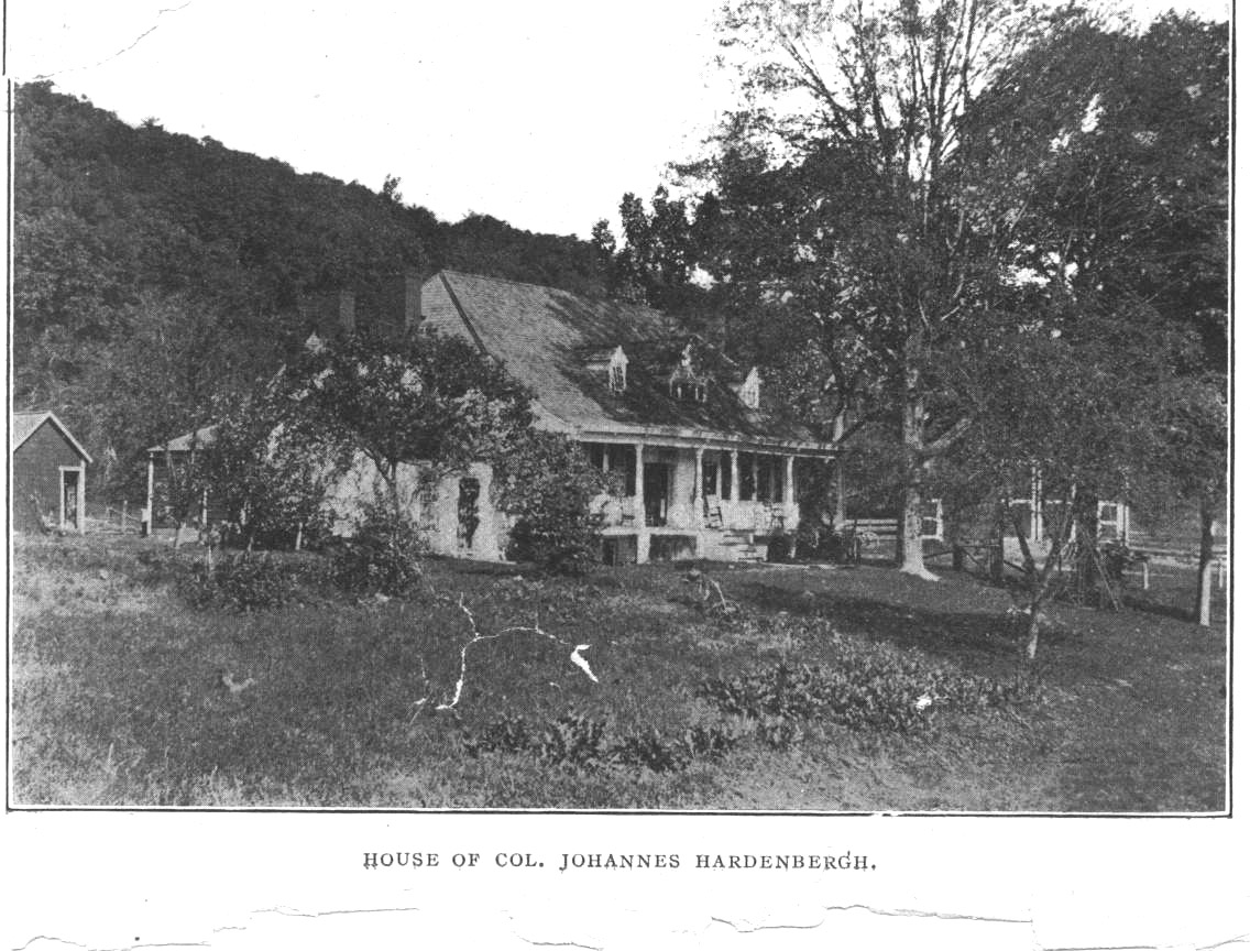 Home of Col. Johannes Hardenburgh